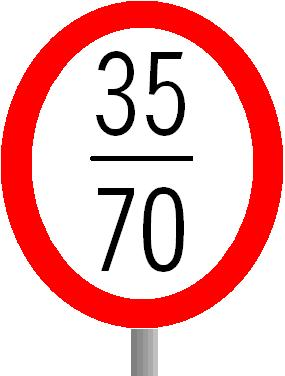 A Typical maximum route speed indication sign found on British railways.